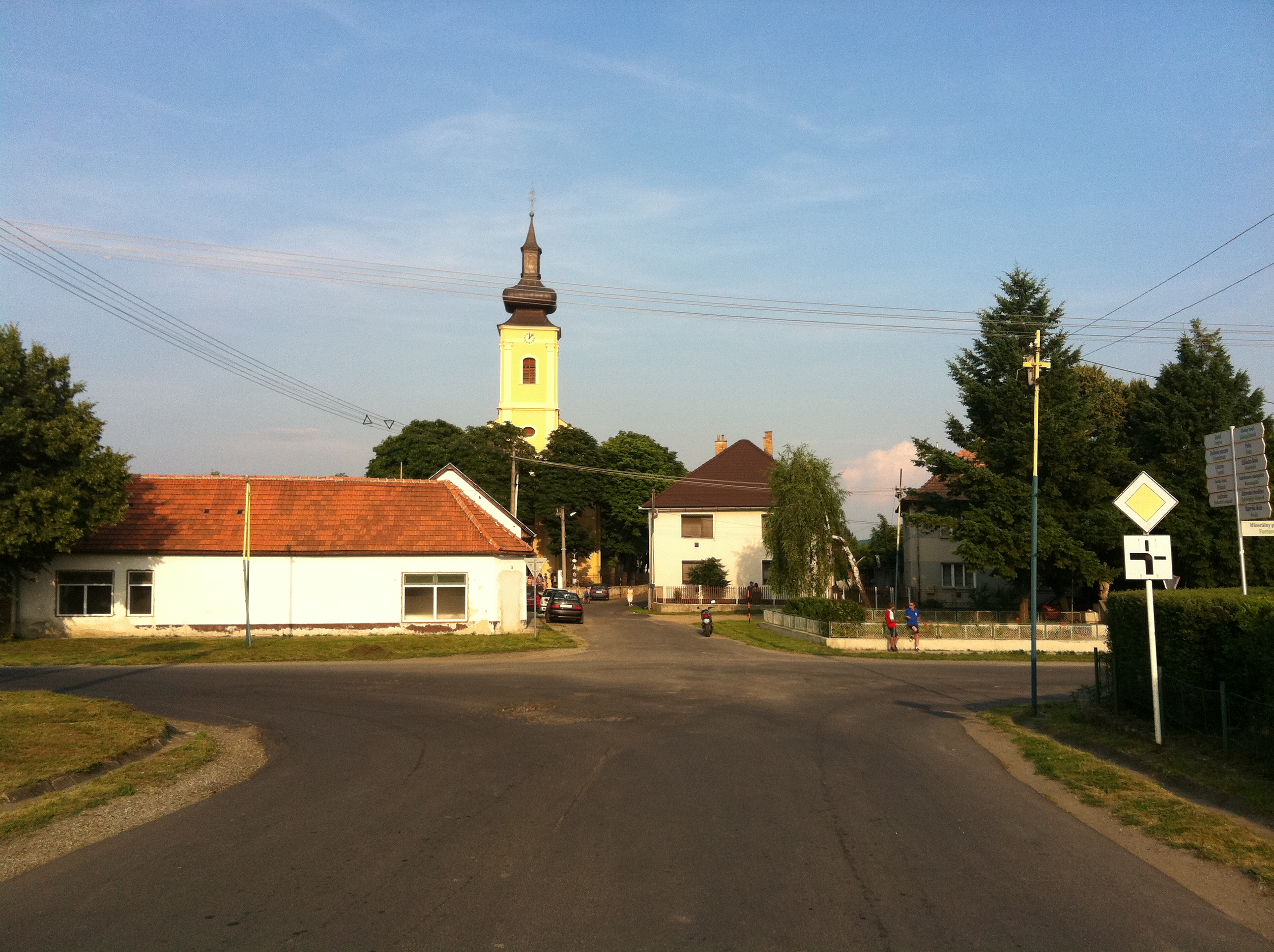 Bussa (Hungarian) or Bušince (Slovak), Slovakia. View of the village center from West.